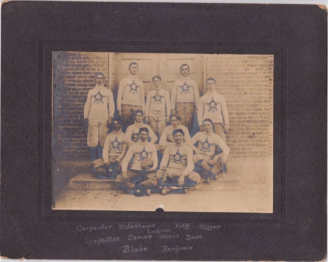 1901 Texas A&M Aggies football team. Most names can be verified here and here.